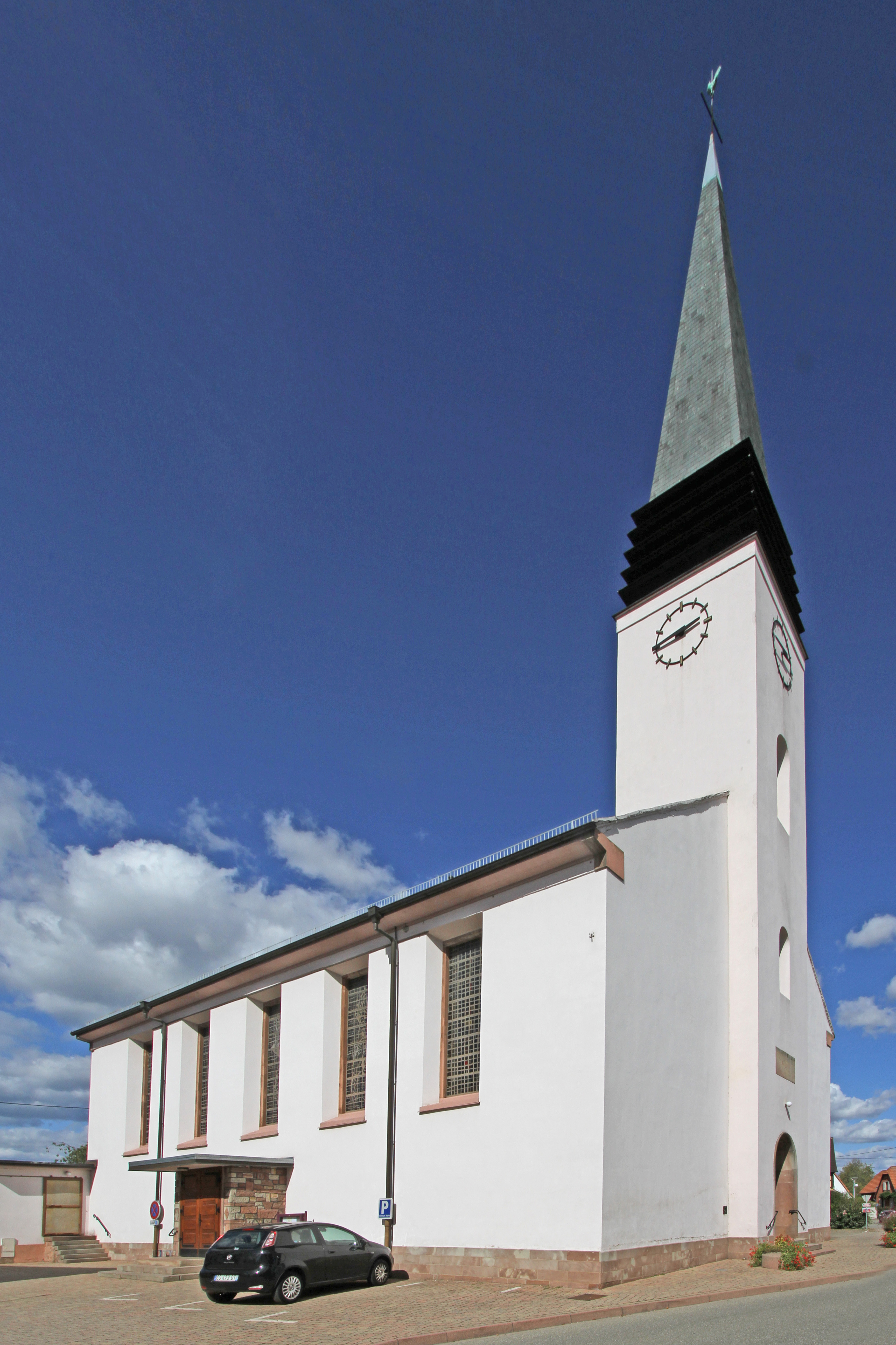 Church of St. Wendelin in Rohrwiller.